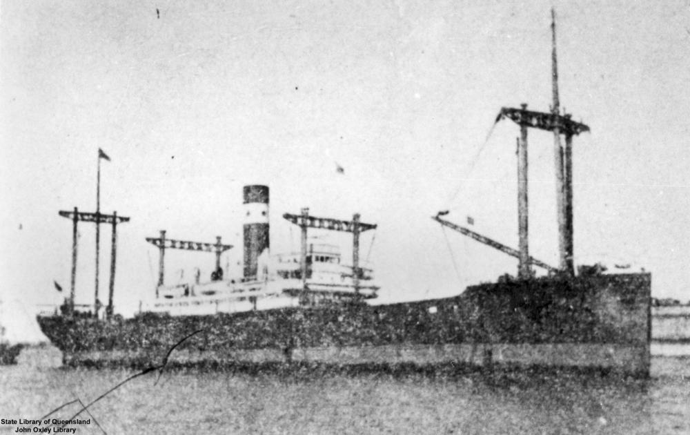 Cie. des Chargeurs Réunis' 5,817 GRT cargo steamship Casamance. Ateliers et Chantiers de la Loire built her in 1921. She escaped France's capitulation to Germany in June 1940 and rescued 27 survivors of the Q-ship HMS Prunella. In February 1941 she suffered engine failure in the North Sea and drifted onto rocks on north Yorkshire coast. 37 men got ashore in her main lifeboat but her jolly-boat was swamped and nine of the 10 men aboard it were drowned.